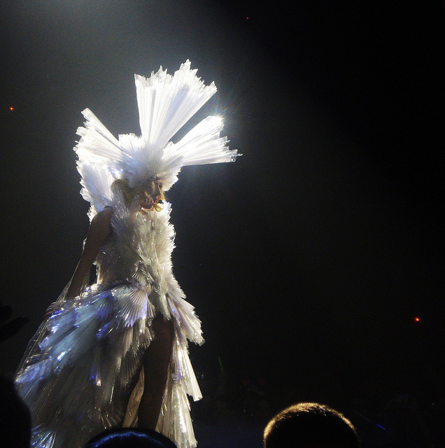 Lady Gaga in "The Living Dress" from the Monster Ball tour in 2010